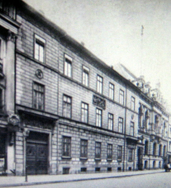 Schadowstraße 10-11 in Berlin